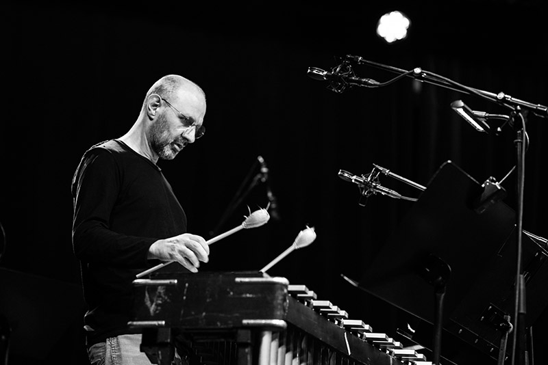 Jorge Rossy in Aarhus Denmark playing with Cesar Joaniquet and Aarhus Jazz Orchestra on the SKETCHES OF BARCELONA project 2018